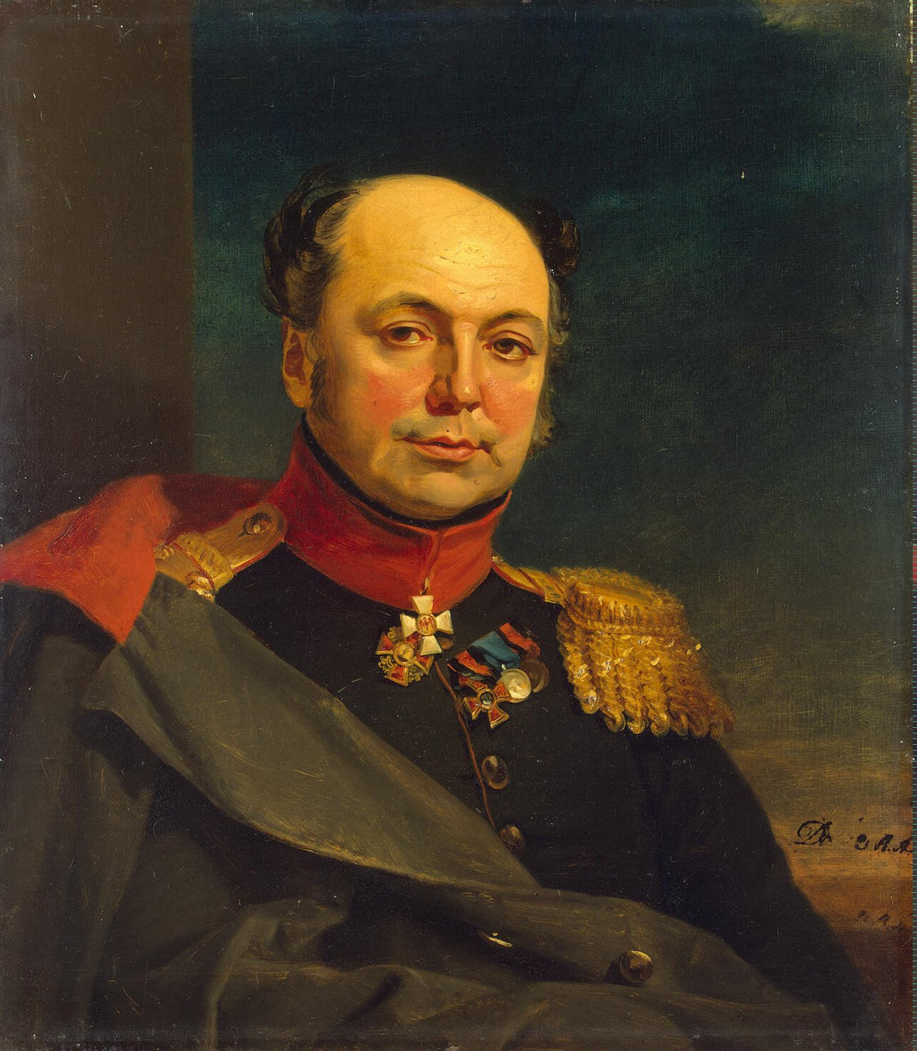 Alexey Vasilyevich Voeikov (09.12.1778 – 22.06.1825) russian general